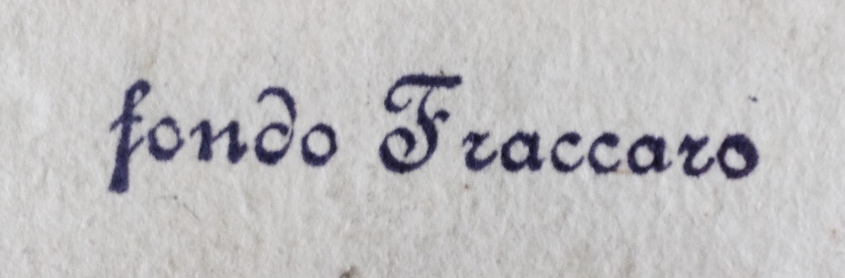 Stamp of the Fraccaro library fund